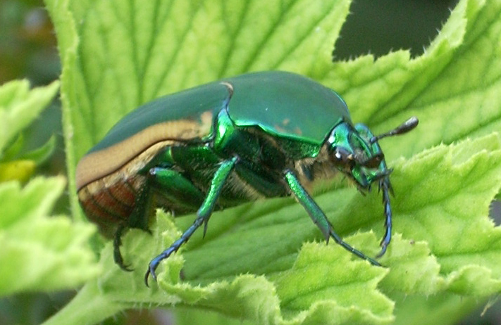 Green fruit beetle on geranium leaf, Culver City, California, August 8, 2008 Closeup of Image:Green_fruit_beetle_on_geran.jpg